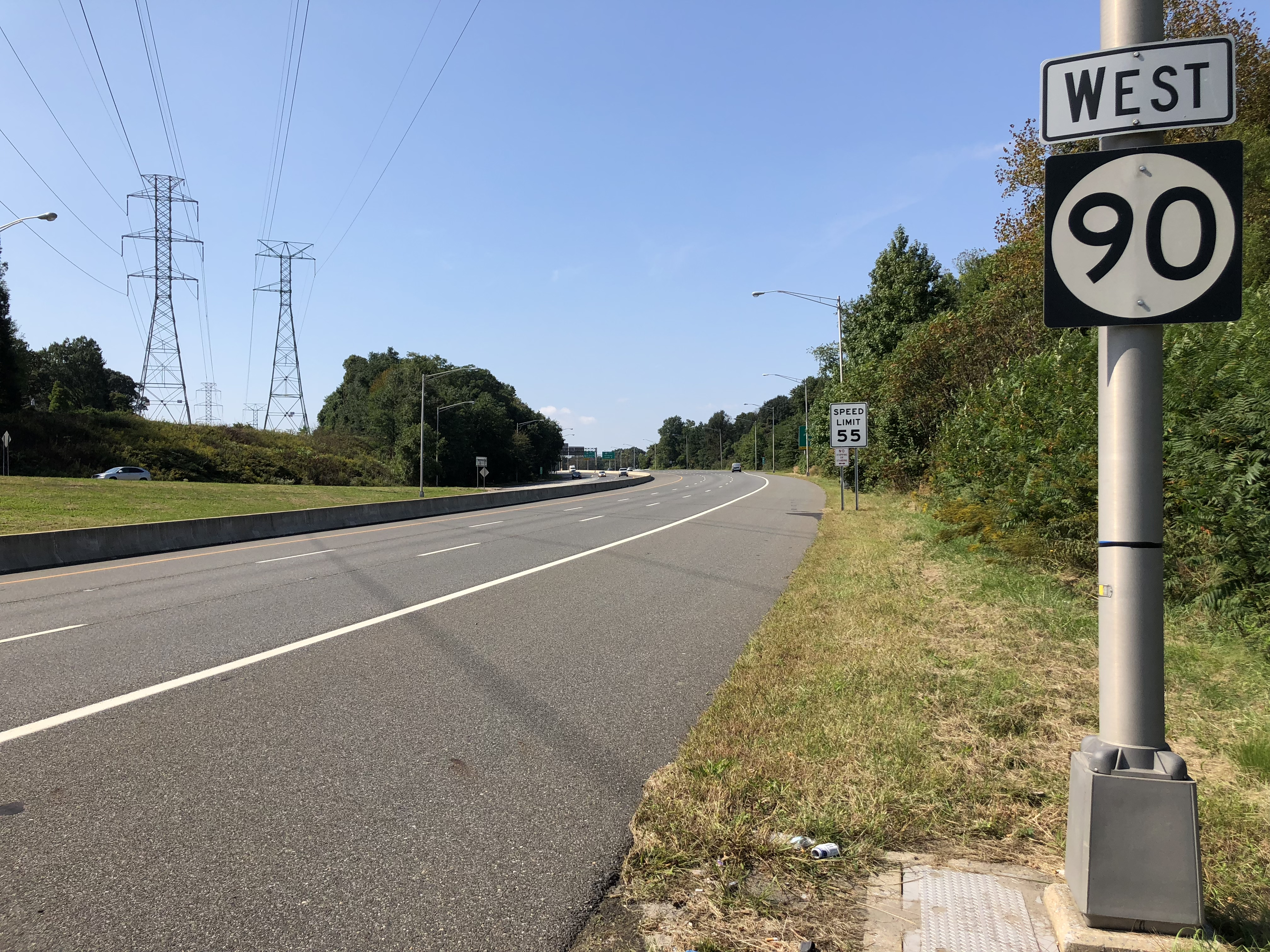 View west along New Jersey State Route 90 between New Jersey State Route 73 and U.S. Route 130 in Pennsauken Township, Camden County, New Jersey